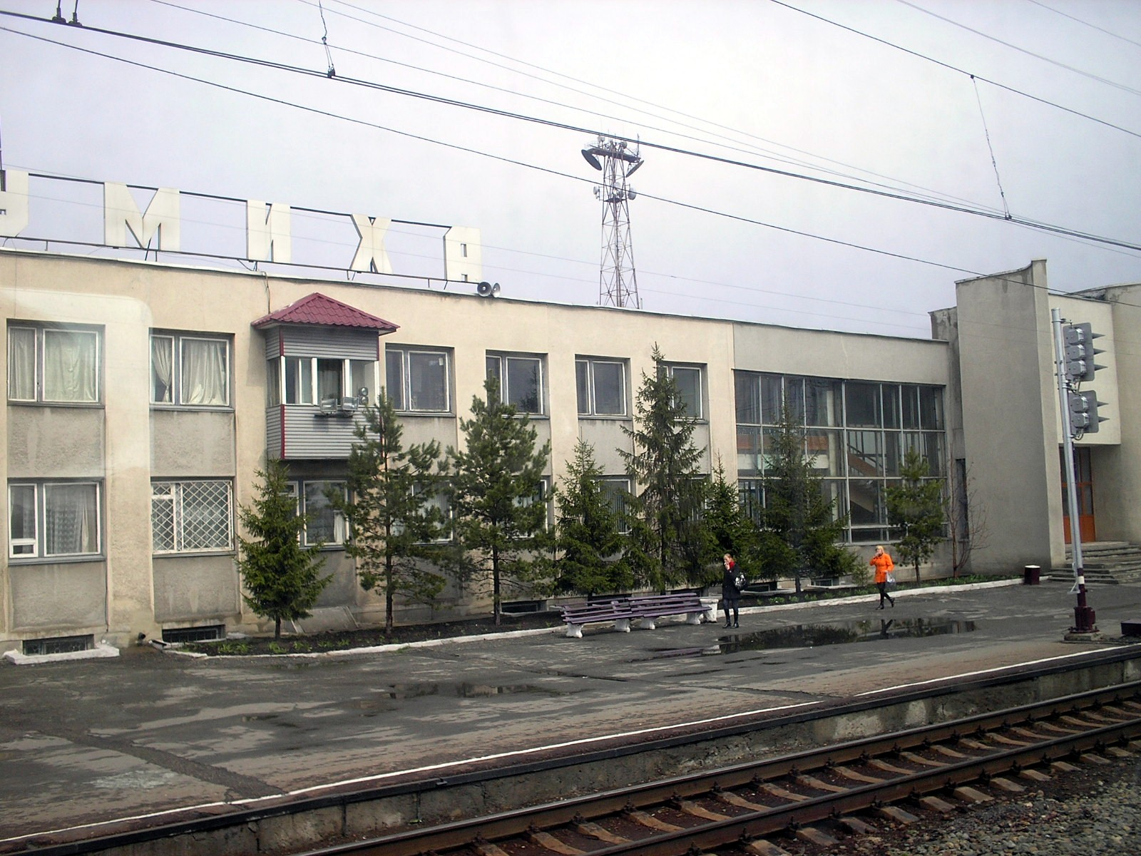 Shumikha train station in Kurgan Oblast, view from the train window